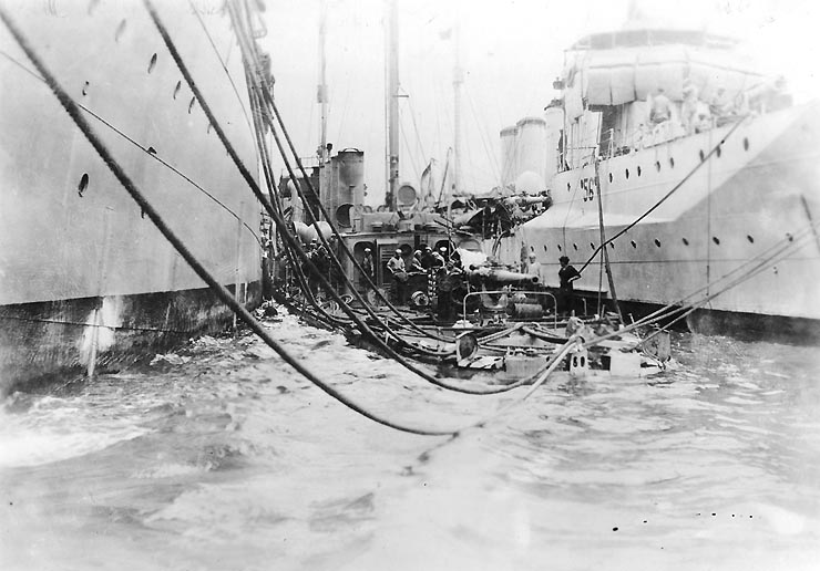 USS Benhaam (Destroyer # 49) in port with her main deck nearly awash, after she was rammed by HMS Zinnia during World War I. She is tied up between USS Ericsson (Destroyer # 56), at right, and another ship.